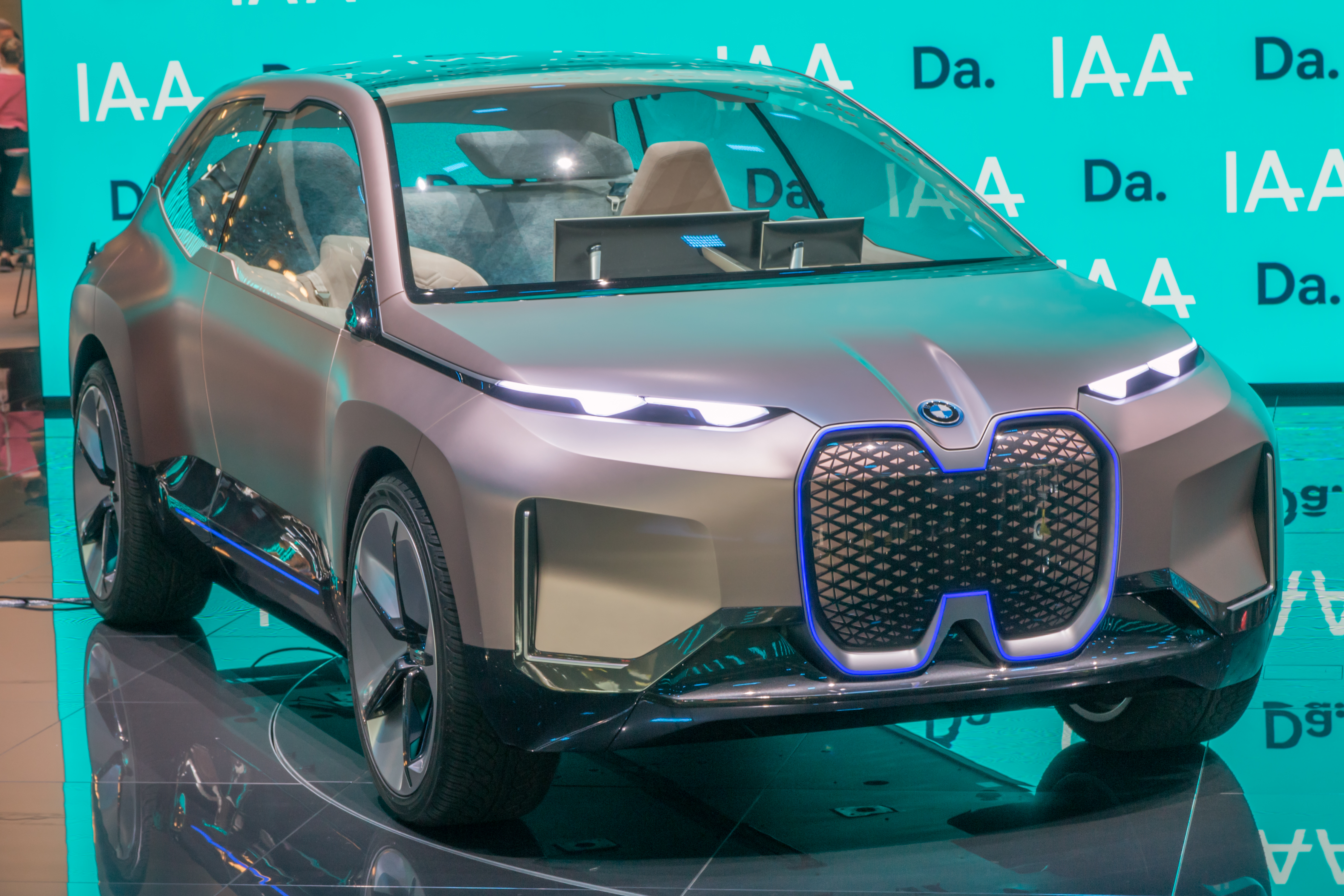 BMW Vision iNEXT